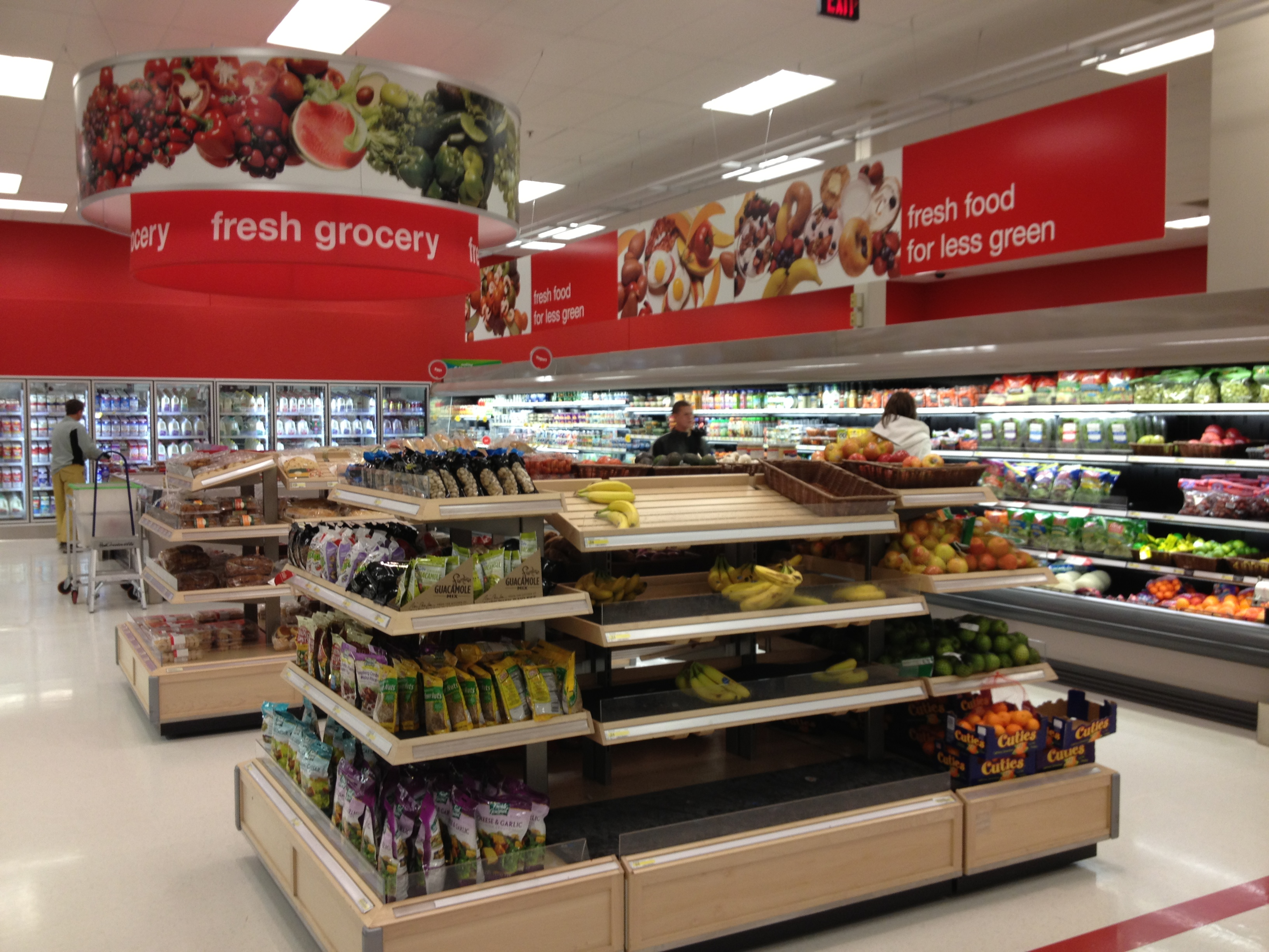 Fresh food section at Target in Silverthorne, CO.